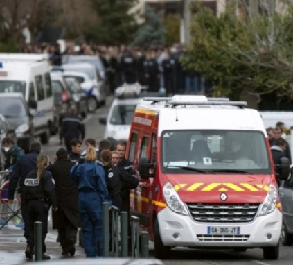 Rabbi, three children shoot dead outside Jewish school in France.